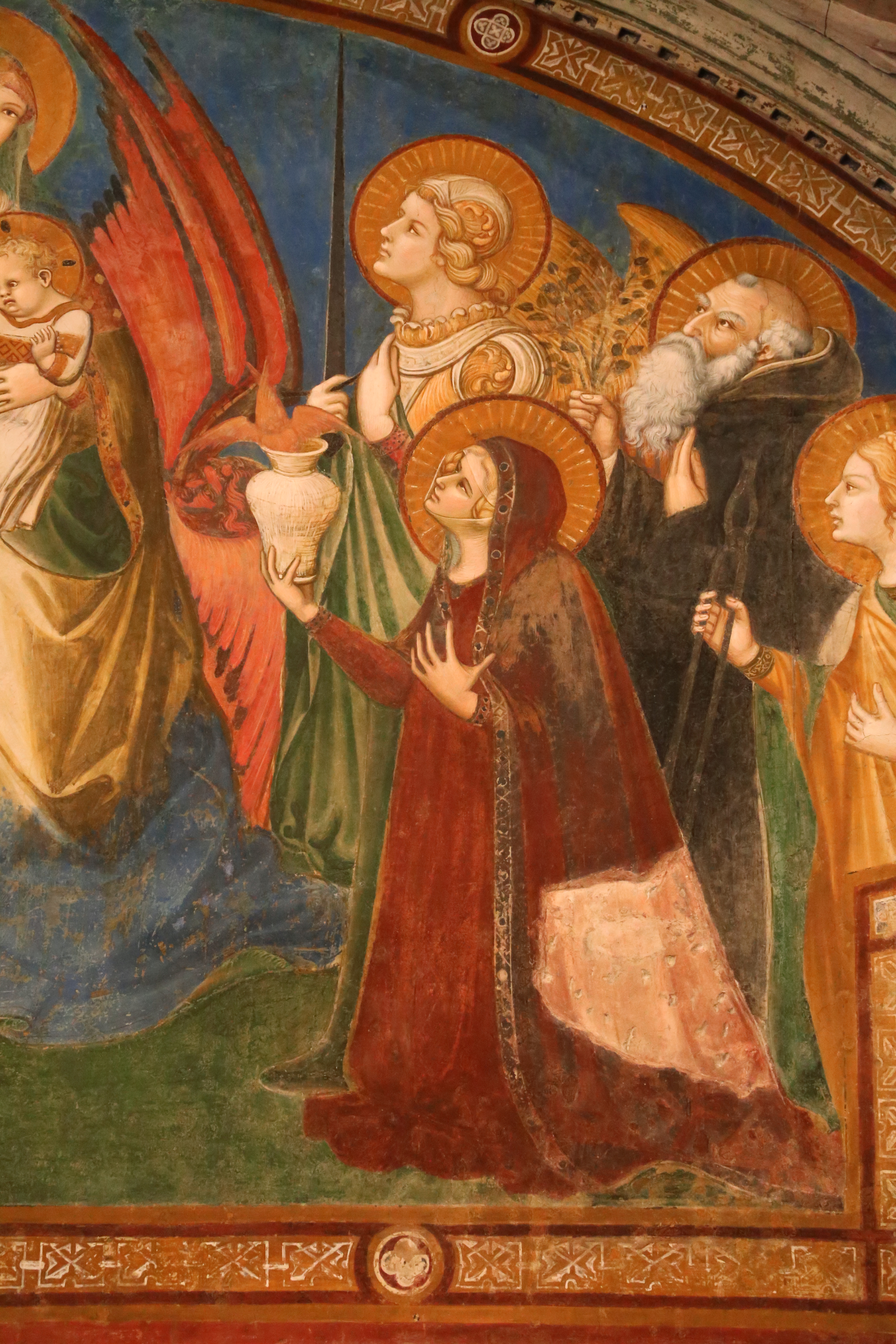 Sant'Agostino (Siena) - Interior